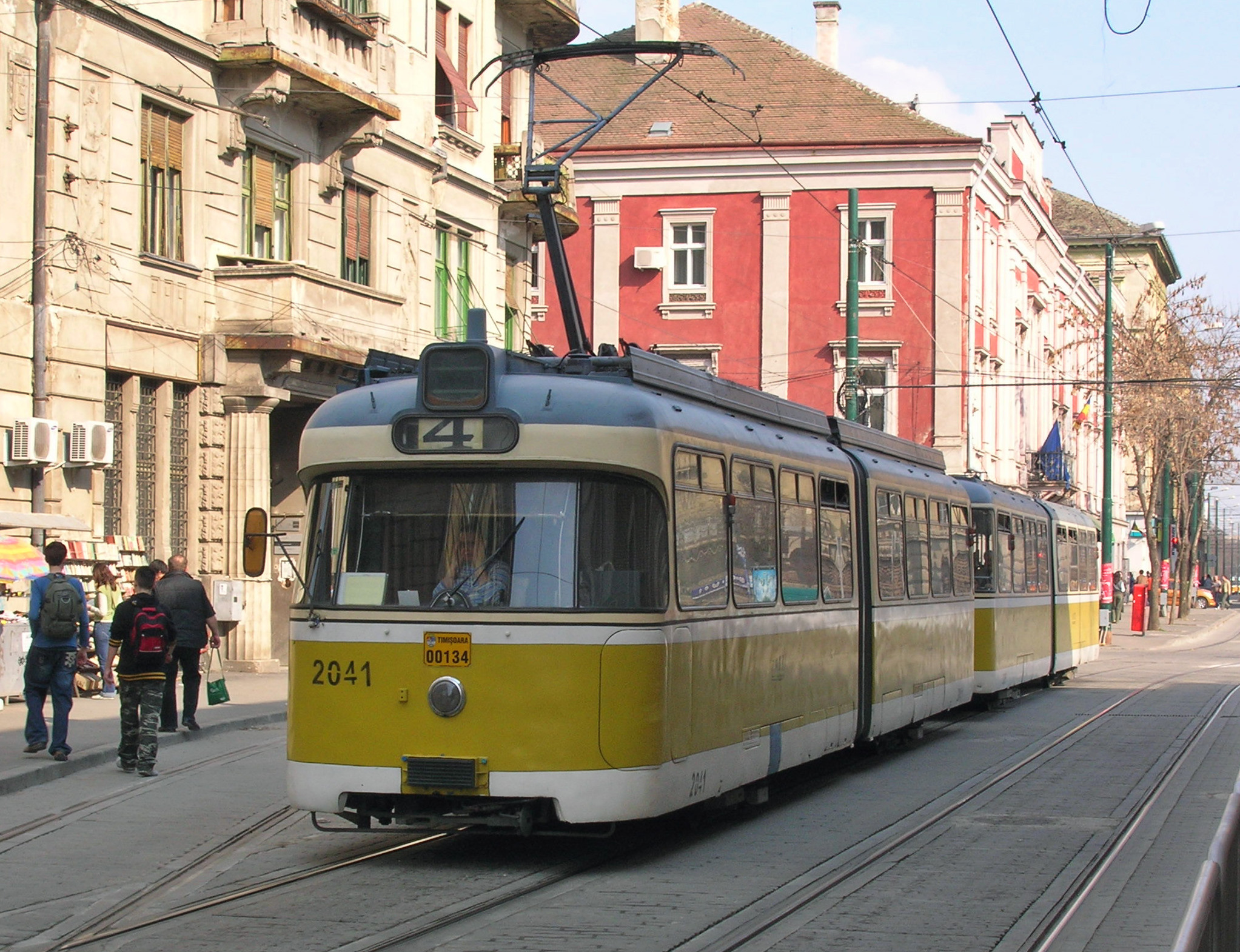 Tram wagon 2041, line 4, on Coriolan Brediceanu street corner Liberty Square, Timişoara (Romania).